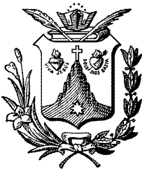 Emblem of the Company of Saint Theresa, from a ca. 1880-90 print.